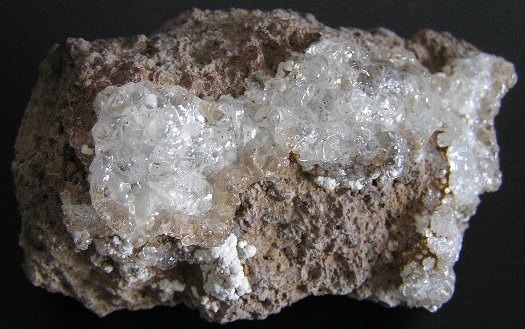 Hyalit